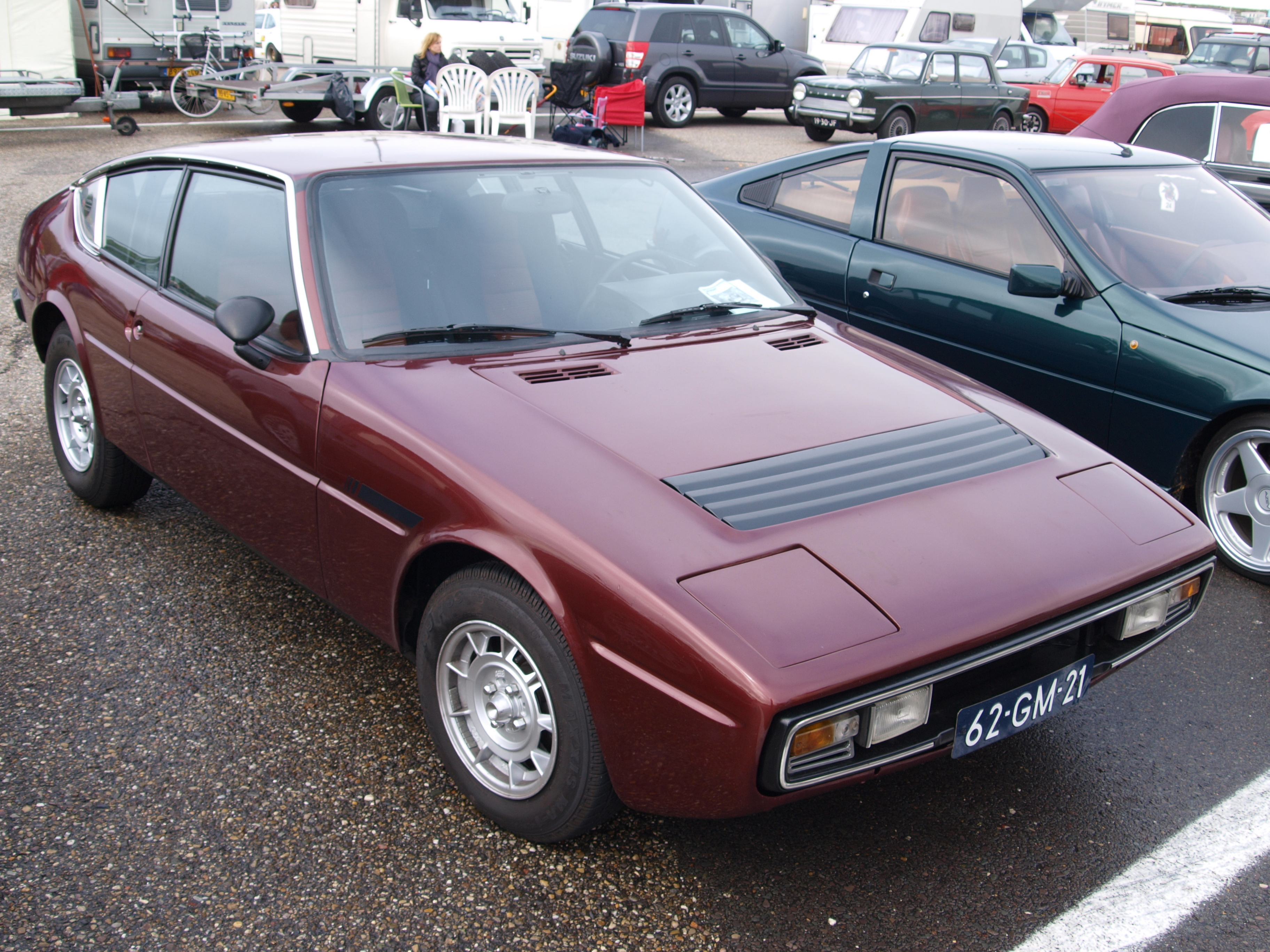 Photographed at the Nationaal Oldtimer Festival Zandvoort 2010, The Netherlands.